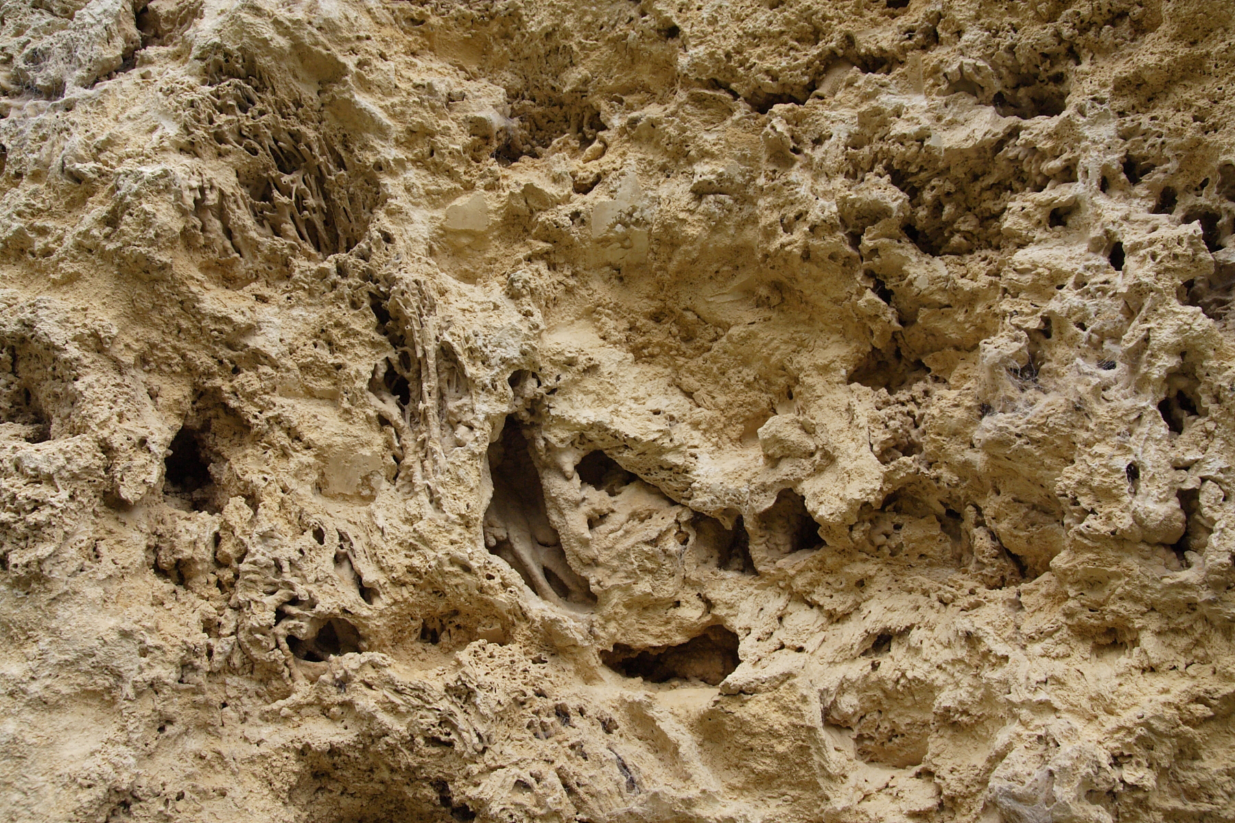 Heavily perforated Travertine (ca. 1 m2) from one of 3 rests of sedimentation in the valley of river Bära at “Ensisheim”, West Swabian Alb. The Travertine, when cropped still humid and easy to saw, runs dry and solidifies to become a fairly tough rock. Here the material developed in interglacial times of the interim of Pliocene/Holocene (12000-6000). In this sample the porosity is very transparent. The subtlety of the material, stems, twigs, air entrapments are frequent, the make very lightweight Travertine.